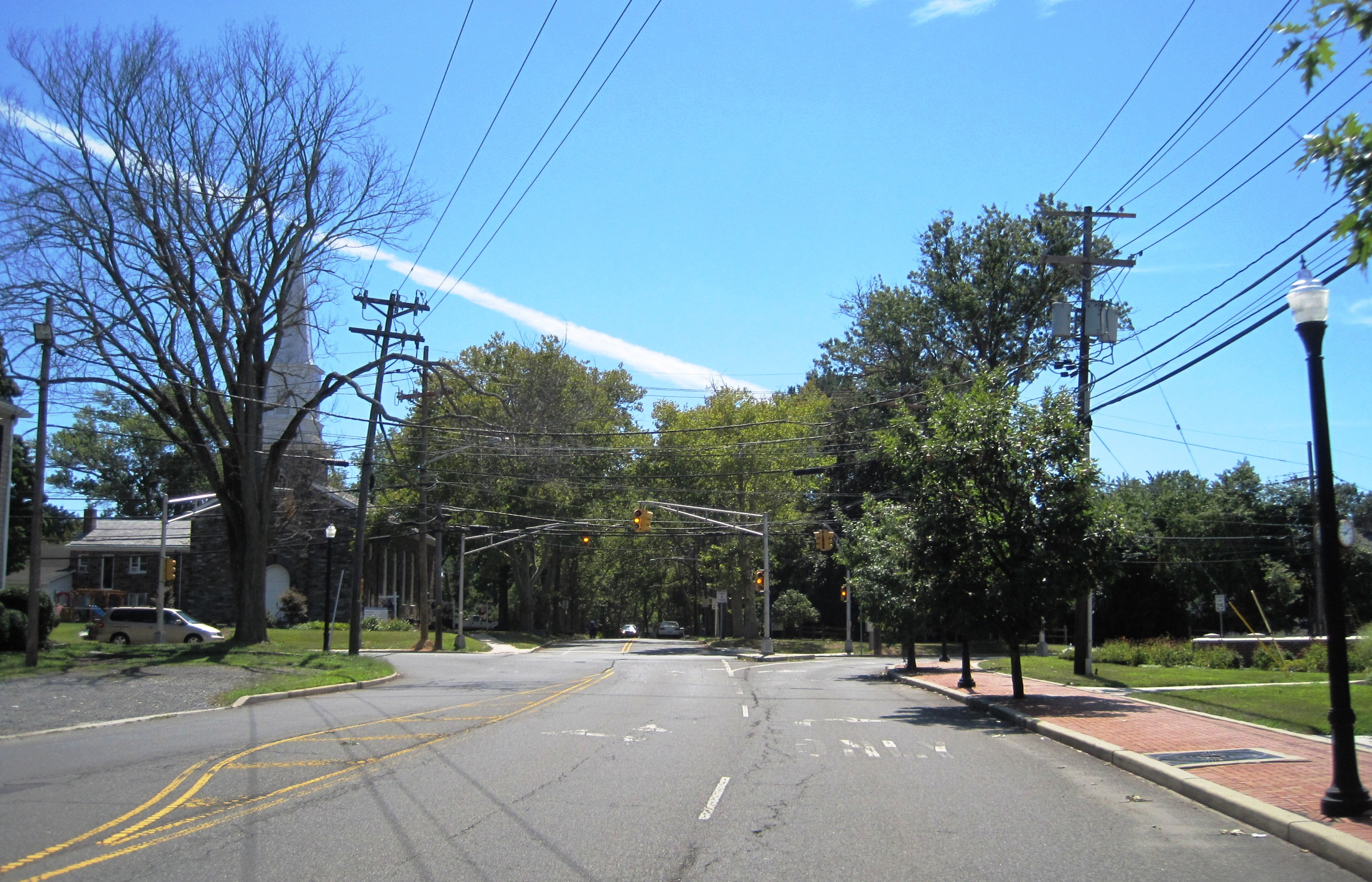 Photo of Plainsboro Center, New Jersey, a census designated place within Plainsboro Township. Photo taken along southbound Schalks Crossing Road at Plainsboro Road.